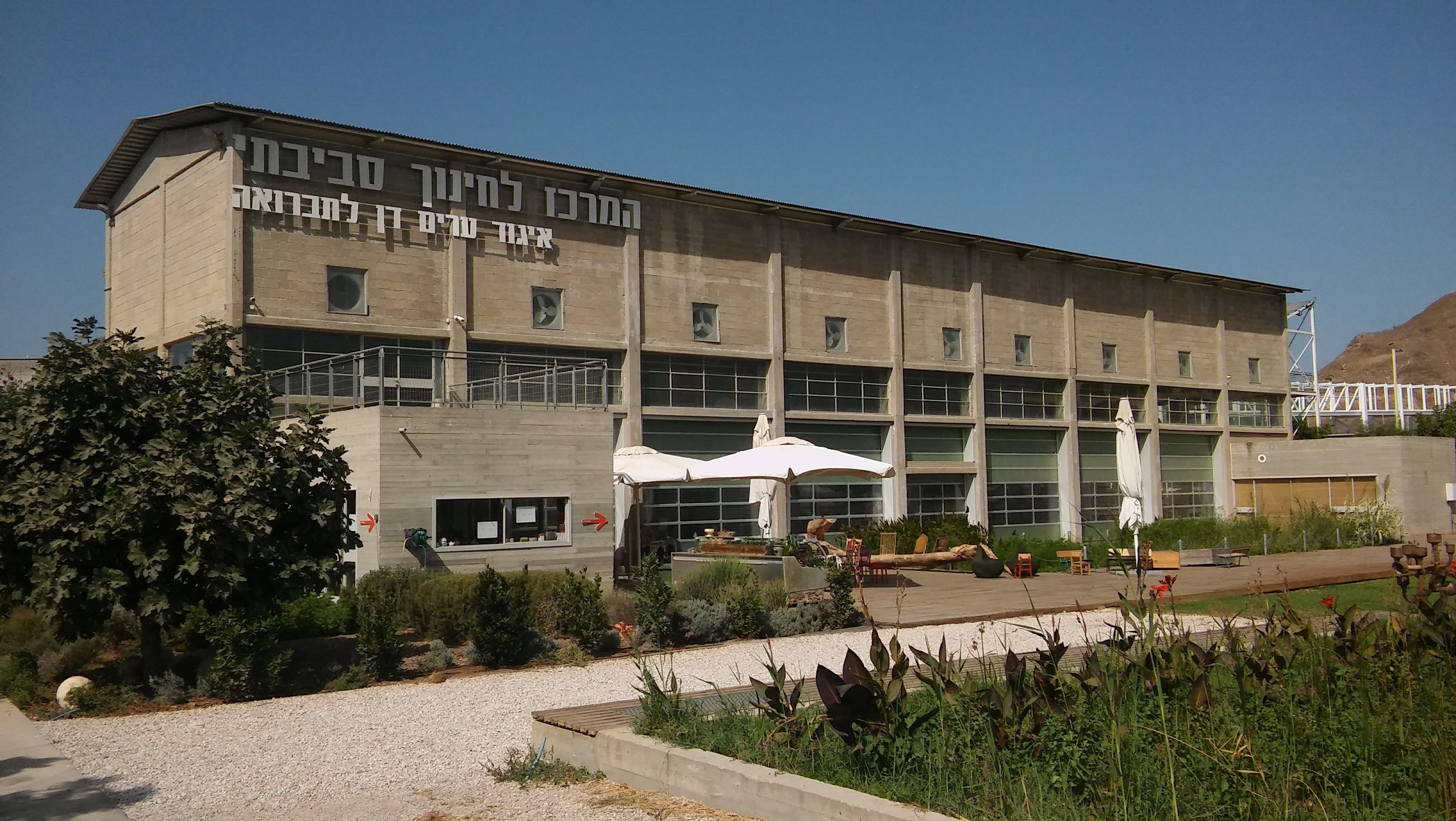 Ariel Sharon Park - Recycling Park